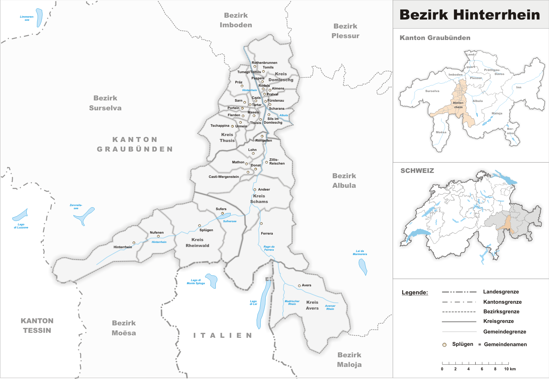 Municipalities in the district of Hinterrhein to 2009